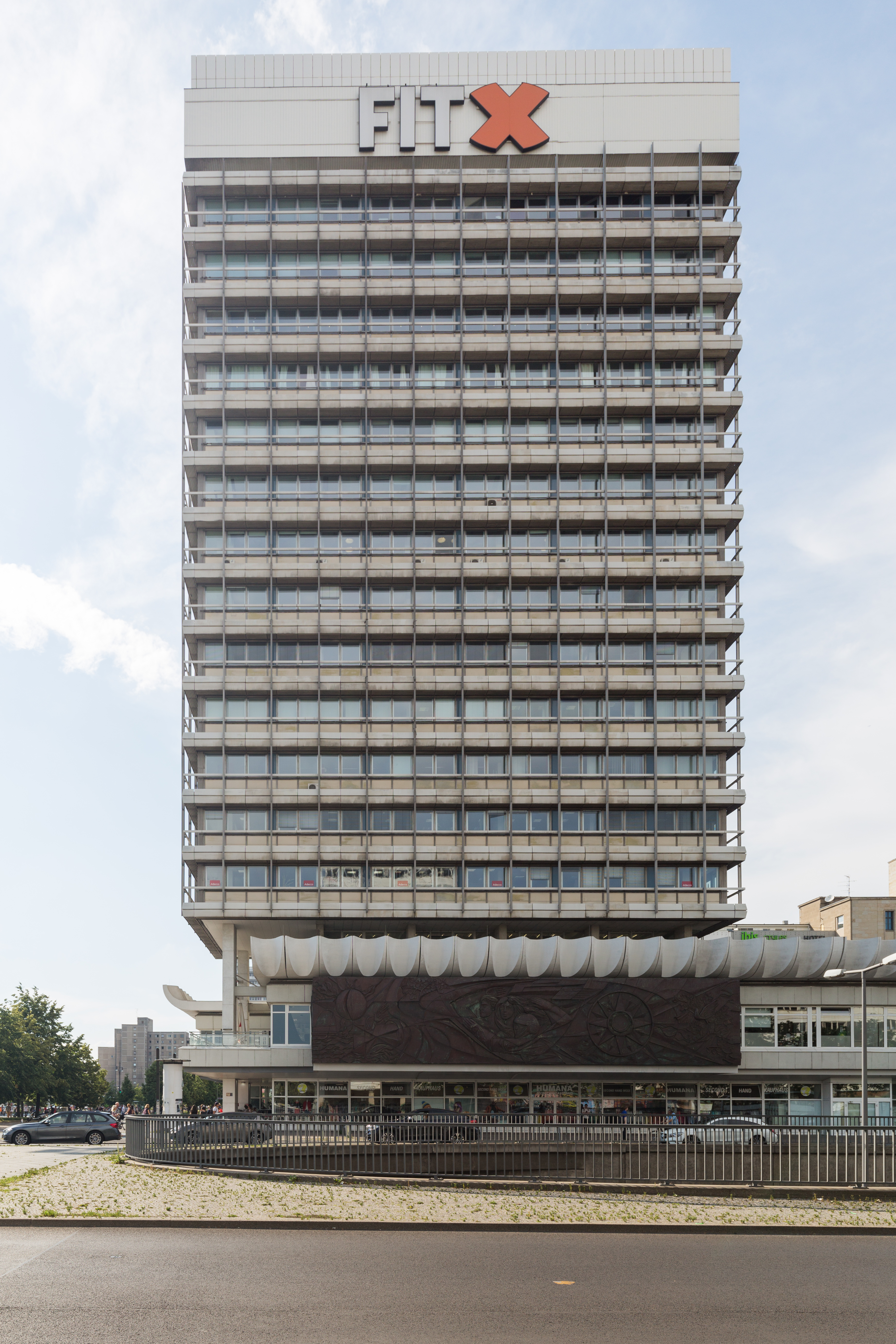 View on the eastern facade of the Haus des Reisens.